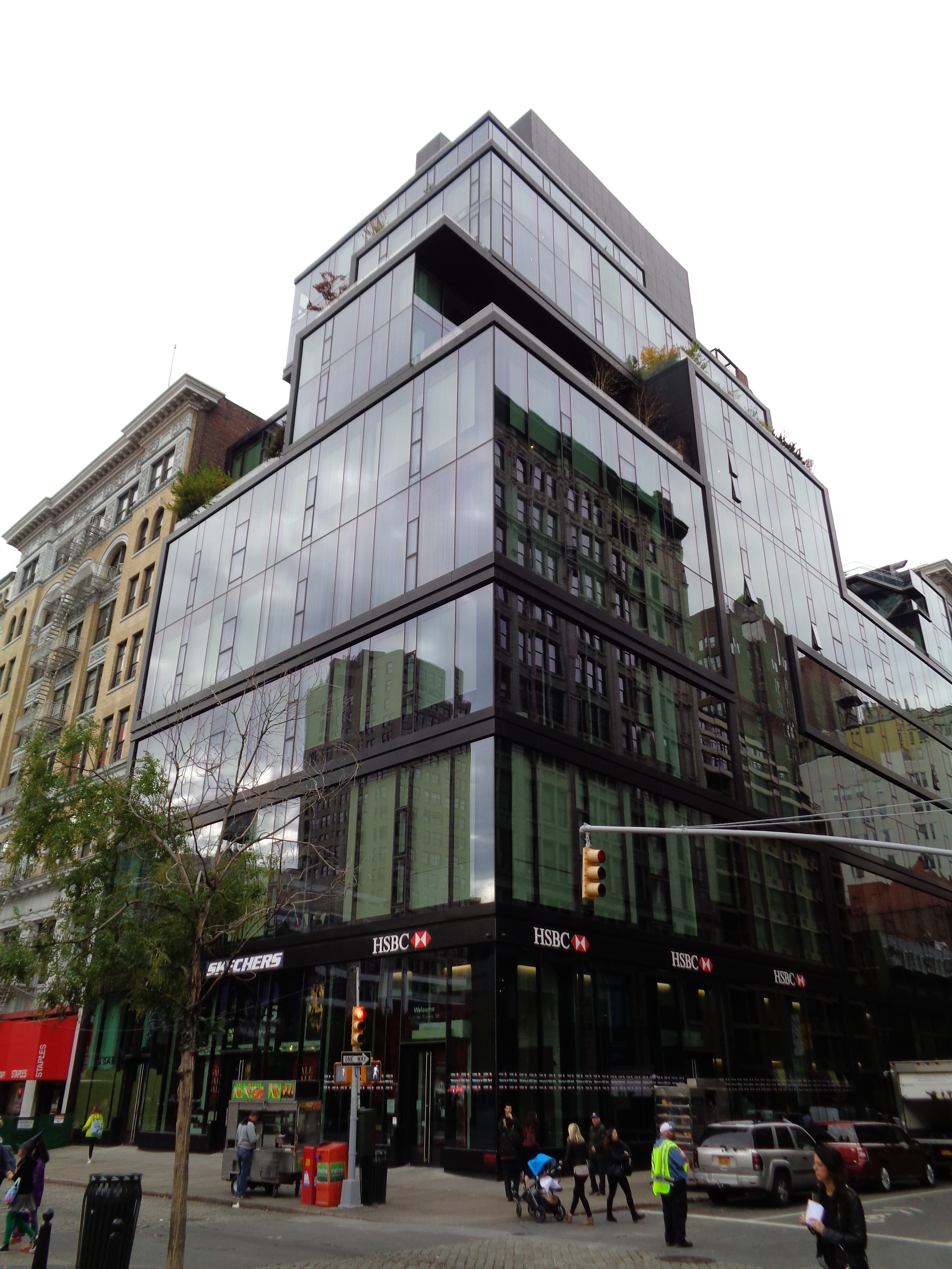 The modern 15 Union Square West, at East 15th Street Union Square West in Union Square, Manhattan.